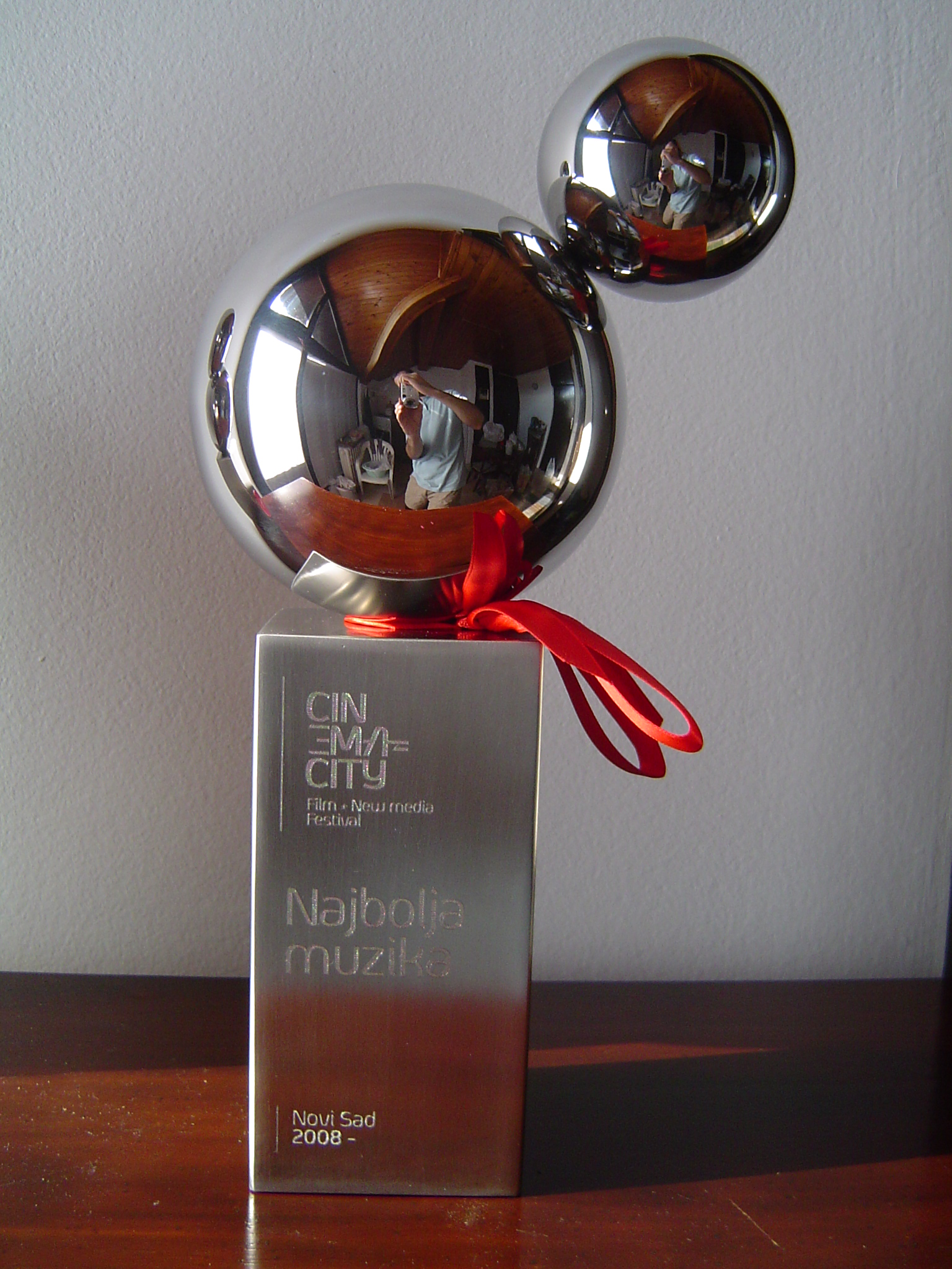 This photo is a picture of Ibis award, designed by Nikola Pesic. It was taken by Nikola Pesic. Nikola Pesic agreed to release it under the GFDL in personal correspondance.